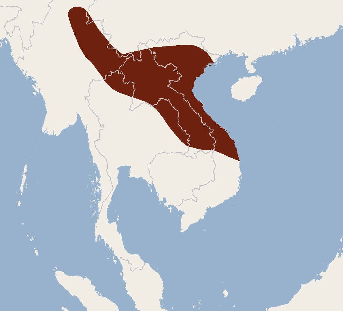 Geographical distribution of Kerivoula kachinensis according to IUCNRedlist